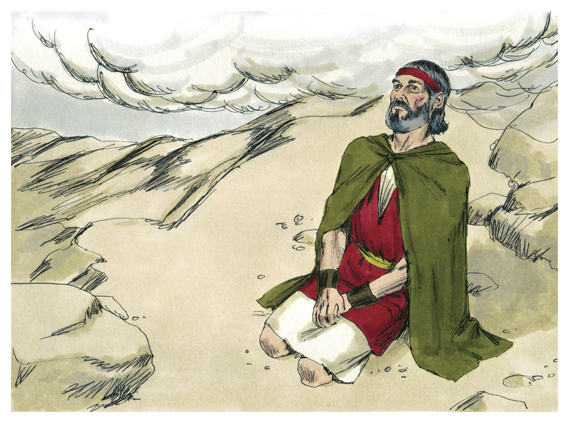 Biblical illustration of Book of Exodus Chapter 20